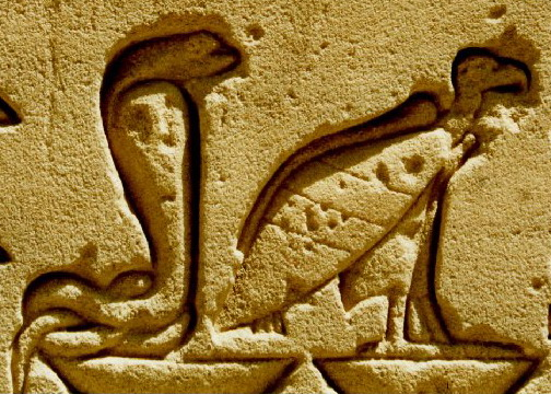 A new version of the image to be used in wikipedia-pt.